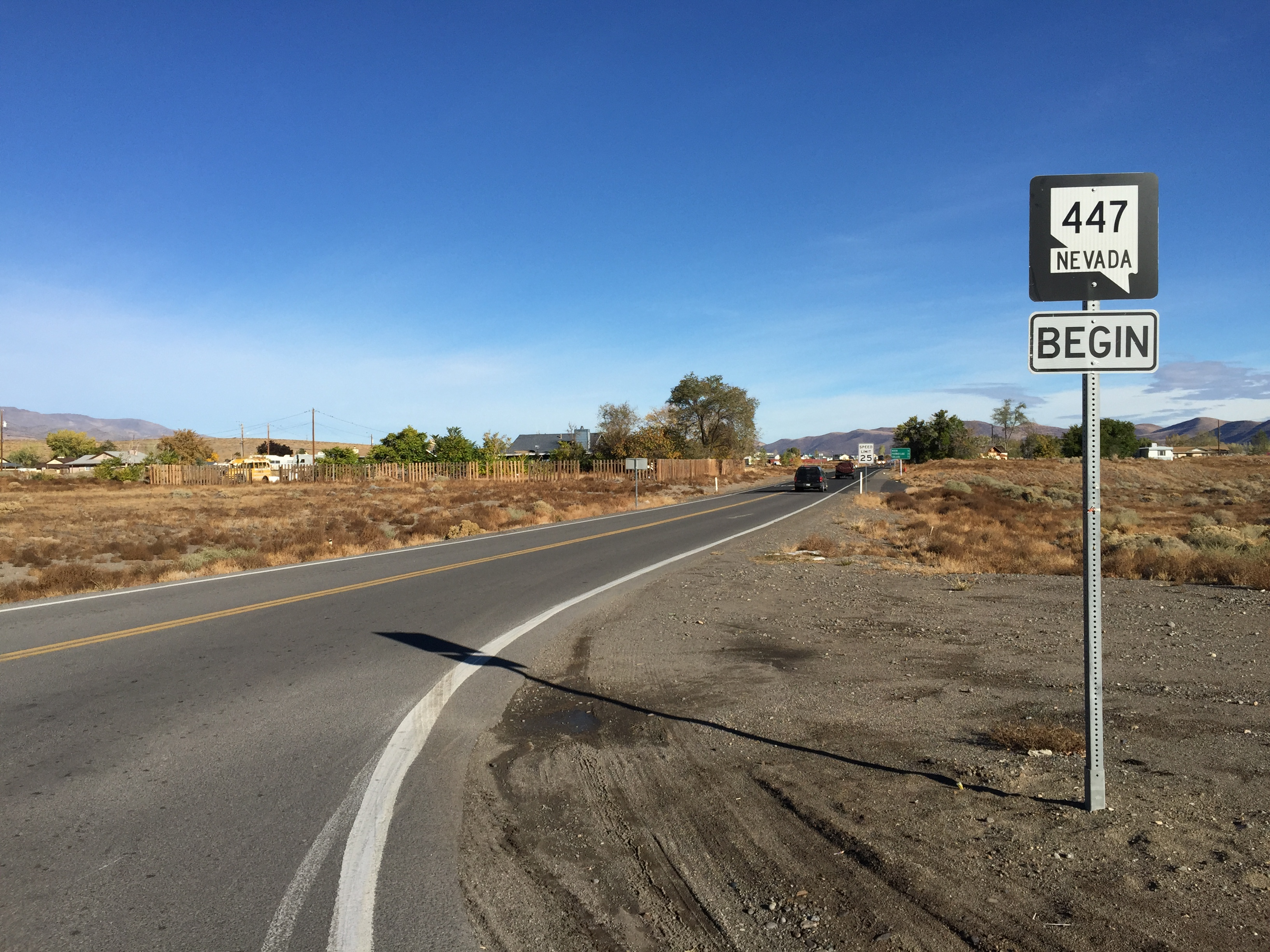 View north from the south end of Nevada State Route 447 (Gerlach Road) in Wadsworth, Nevada